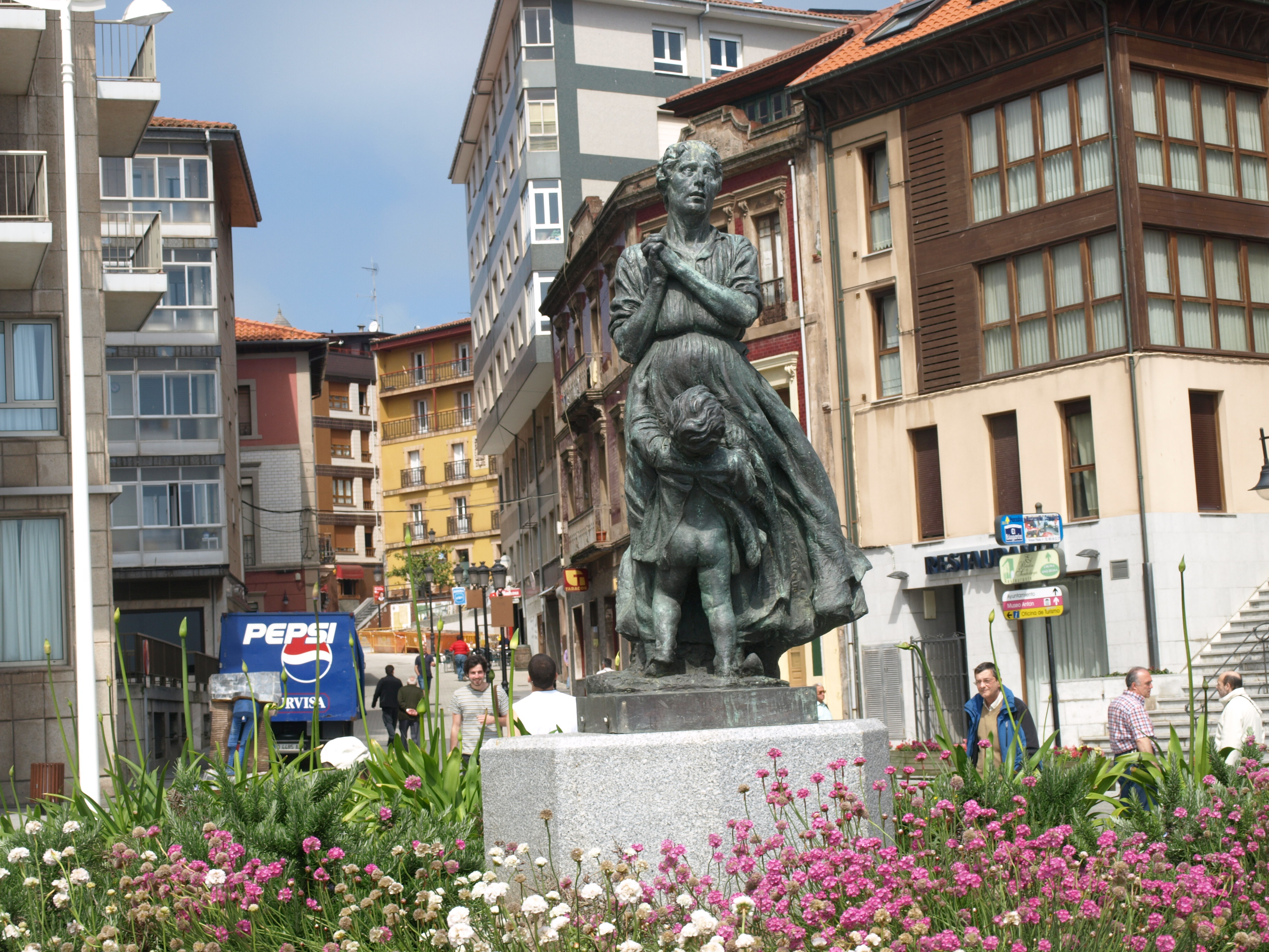 Statue of wife and child waiting for the return of a sailor in the Candás harbor.